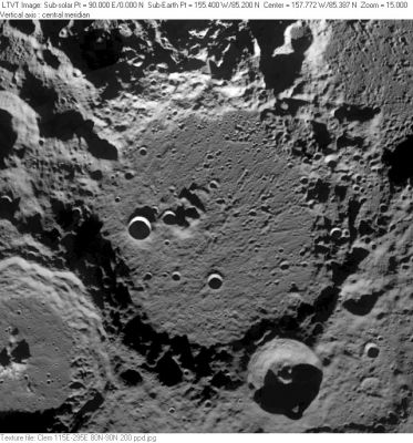 Rozhdestvenskiy is the large crater in the center of this north-up aerial view. The deep 42-km diameter crater on its southeast rim is Rozhdestvenskiy K, while a little north of that on the rim is 21-km Rozhdestvenskiy H. The 109-km crater half visible in the lower left is Plaskett while the similarly sized, but less obvious, one in the upper right is Hermite. Another named satellite, 44-km Rozhdestvenskiy U, can be seen cut by the left margin (half way between the north rim of Plaskett and the top edge of the frame). The craters on Rozhdestvenskiy's floor are unnamed.